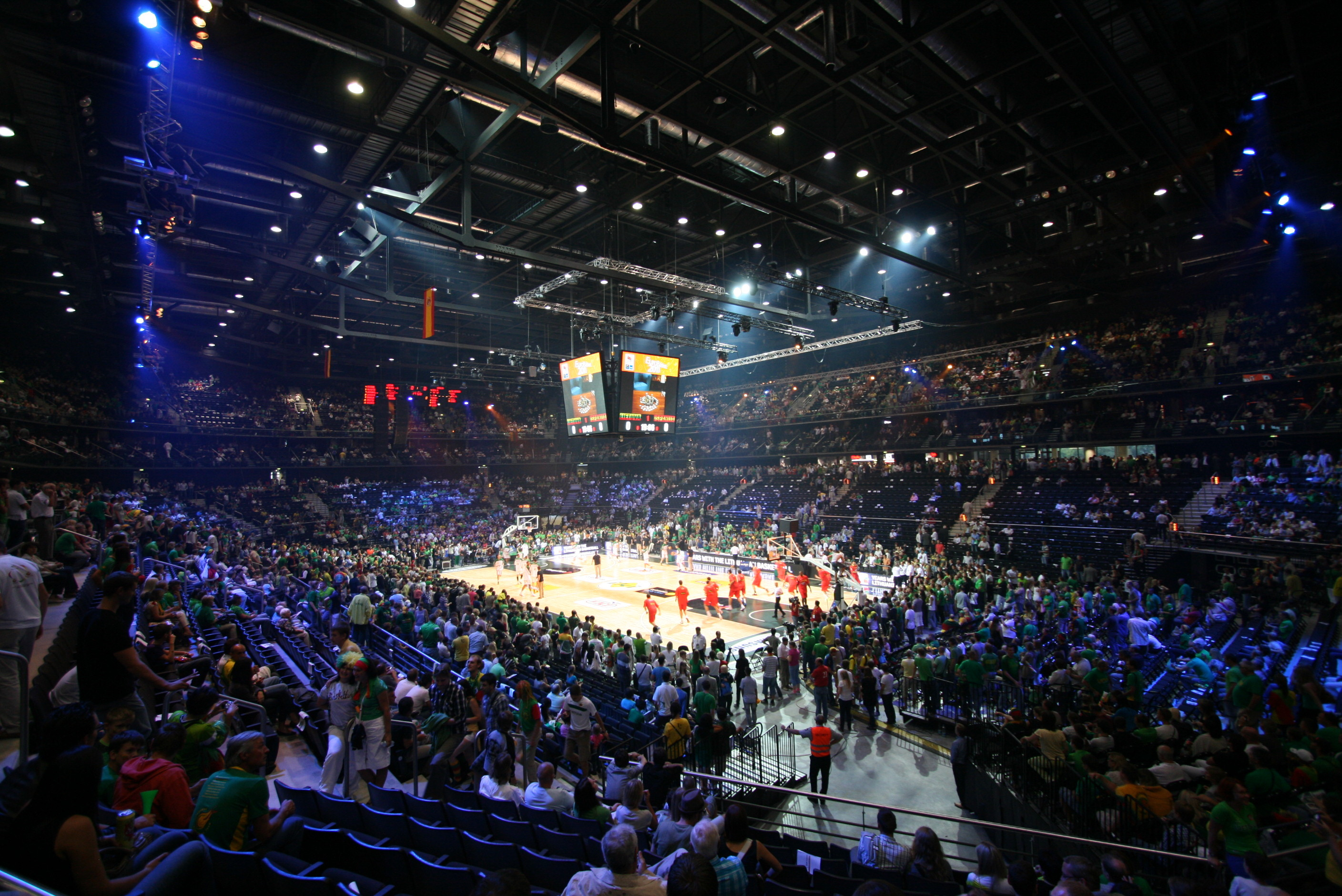 Interior of Žalgiris Arena during friendly match Lithuania-Spain